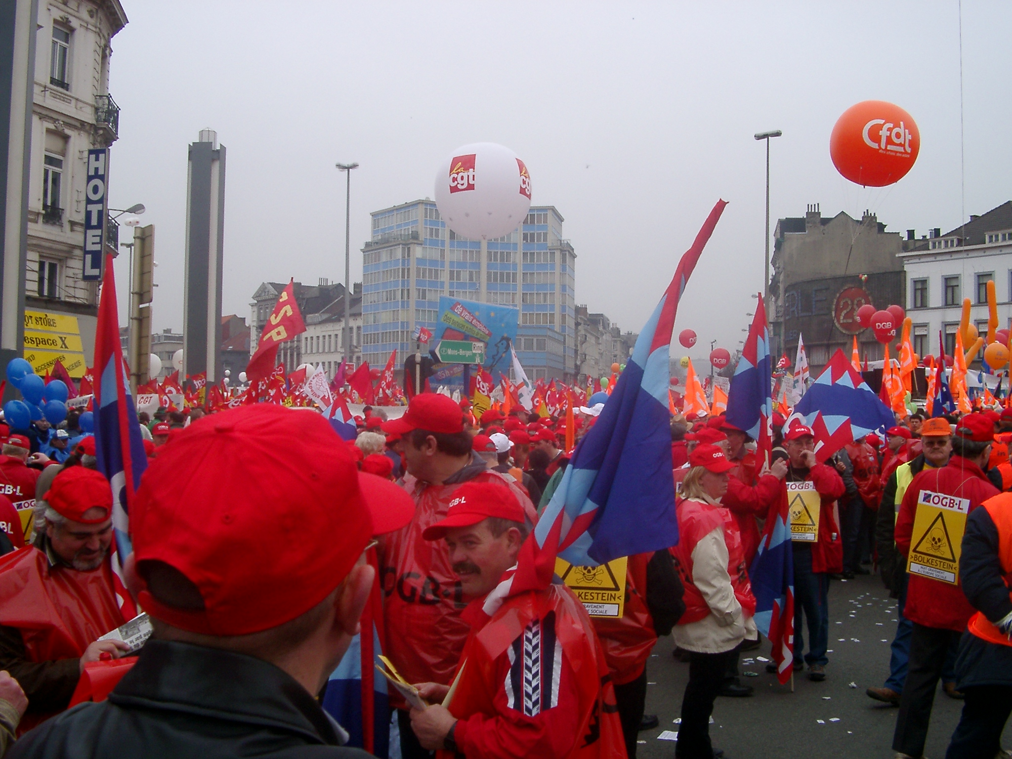 International manifestation against Bolkestein rule in Brussels: French and Belgian trade unions